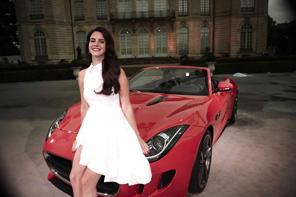 Brit and Ivor Novello award winner Lana Del Rey today released the video for ‘Burning Desire’. It was written and composed by the singer songwriter and will feature as the title track to a special film called ‘Desire’ starring Golden Globe winner Damian Lewis, which has been created by Jaguar and the award winning producers Ridley Scott Associates.